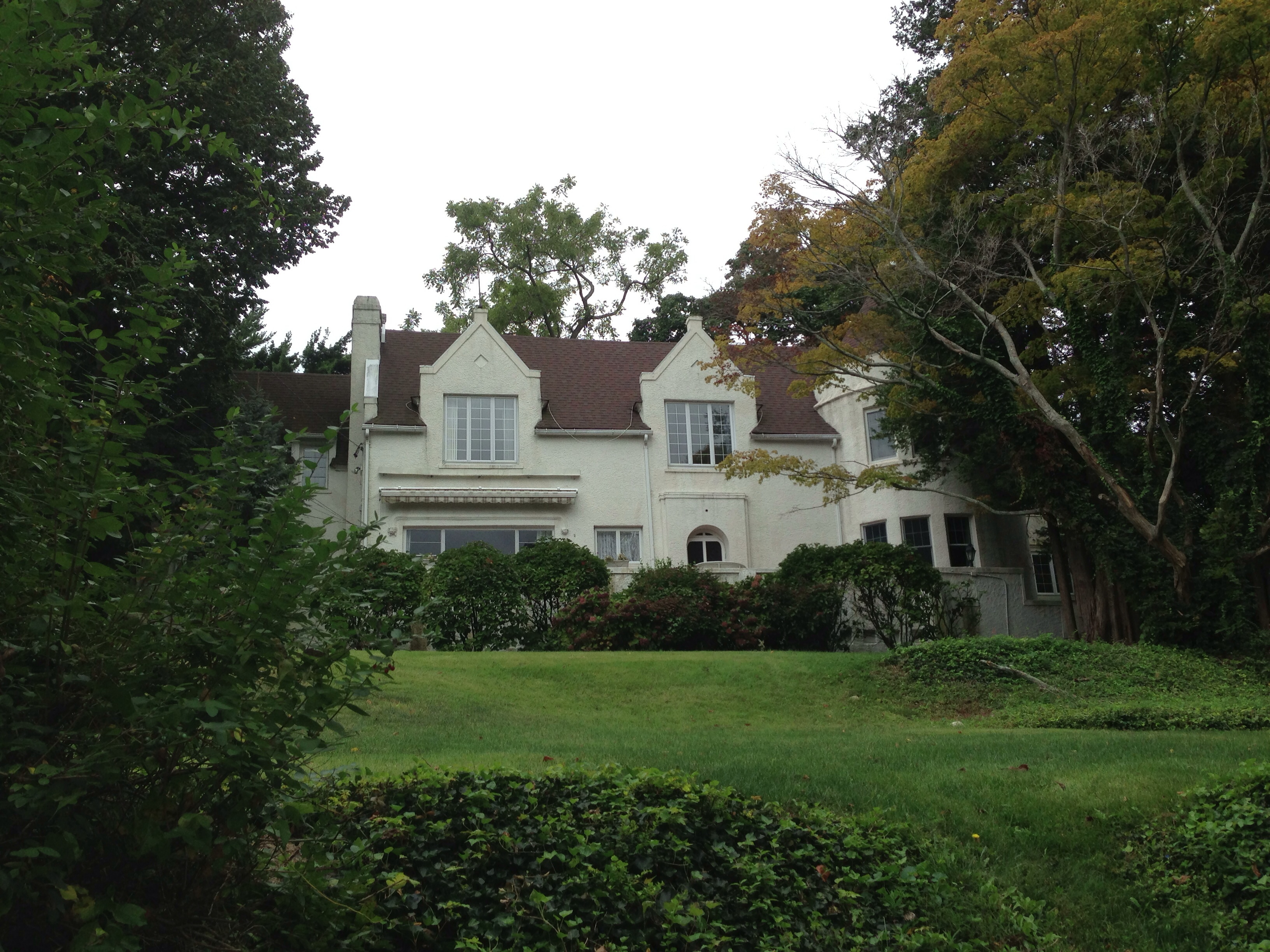 Beaux Arts Park Historic District, Locust Lane, Upper